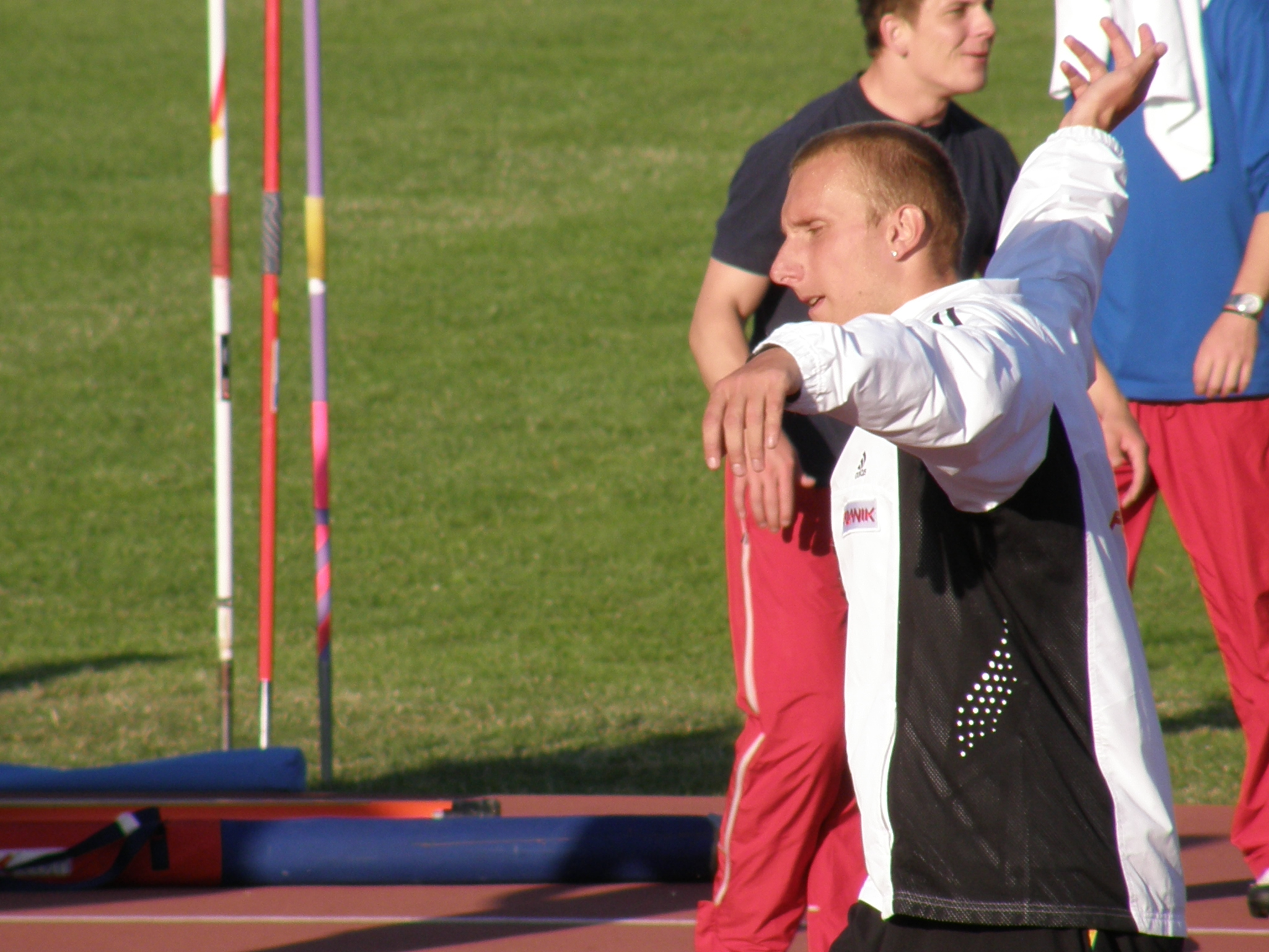 Igor Janik - 2010 Polish Championships in Athletics (Bielsko-Biała)